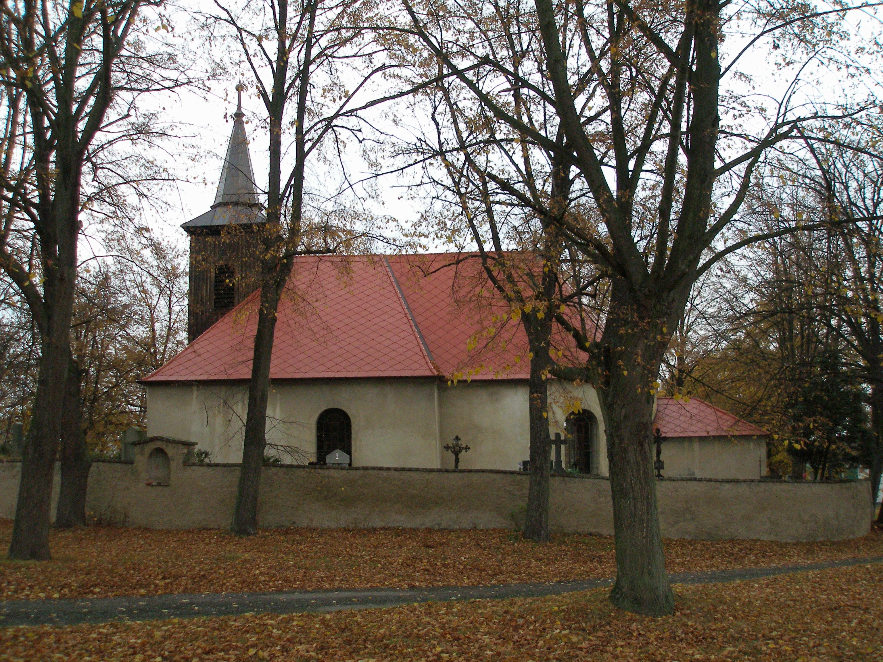 Saint Sigismund church in Velká Hraštice